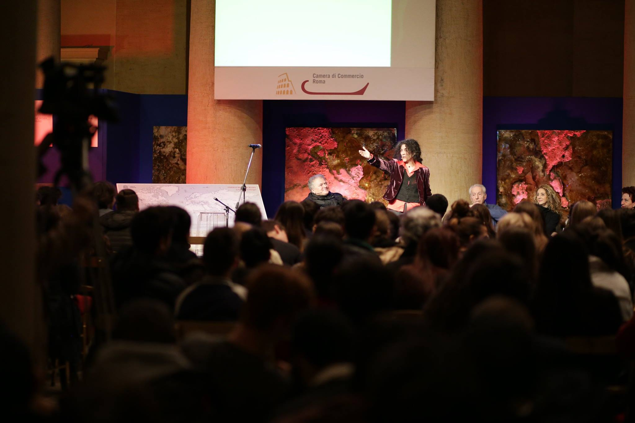 Maria Grazia Calandrone al Tempio di Adriano, 5.2.16